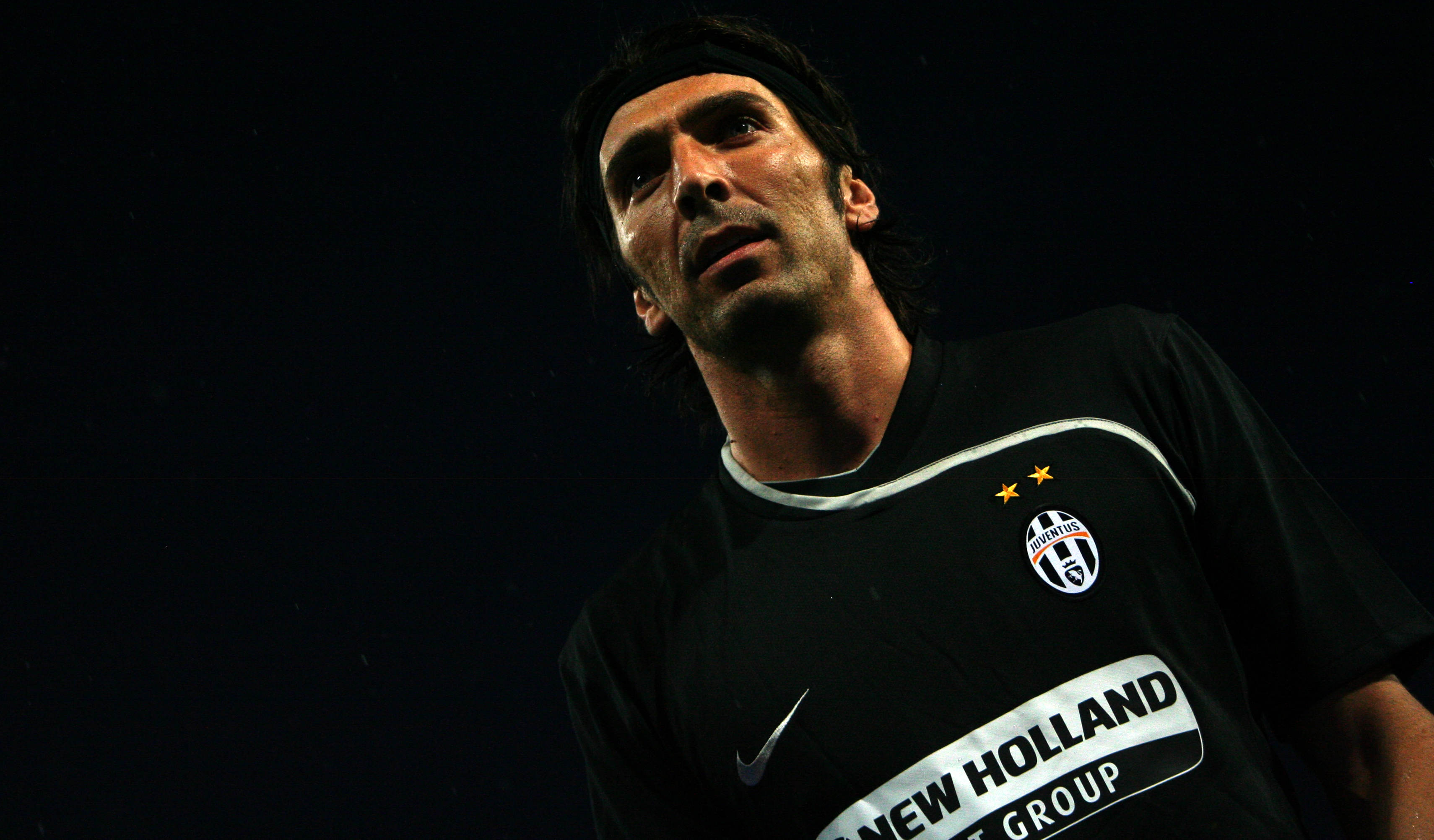 Gianluigi Buffon